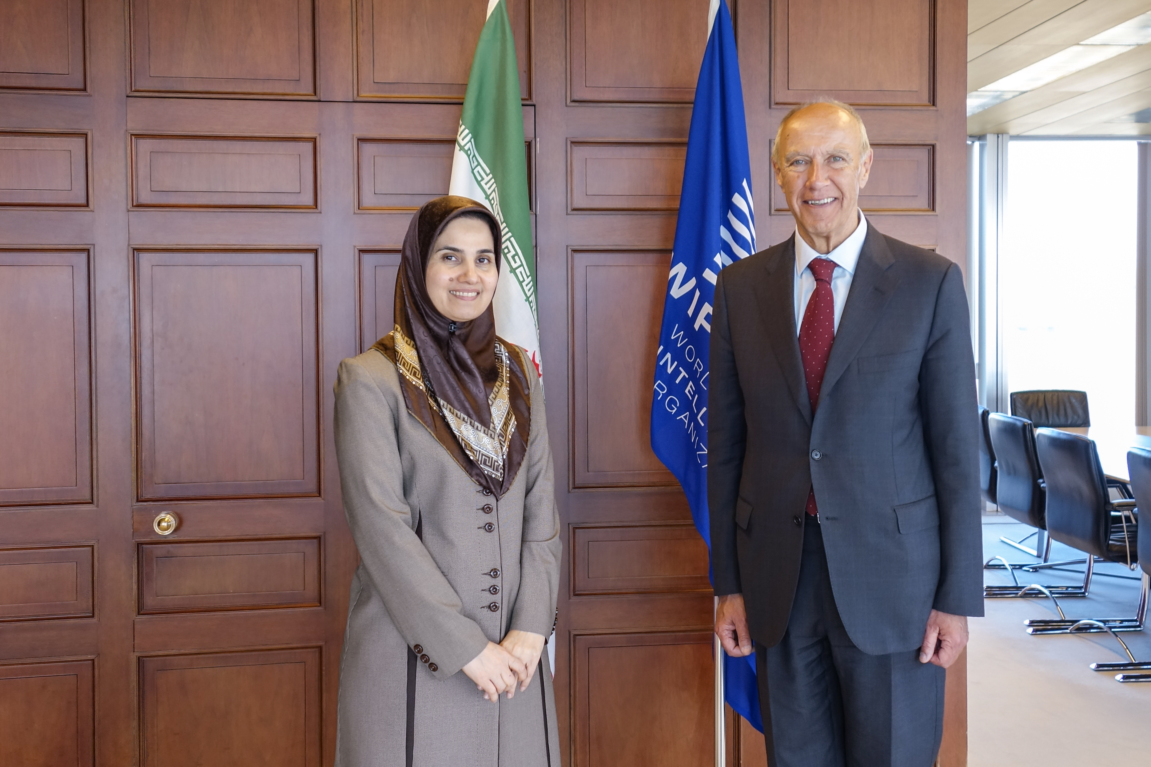 WIPO Director General Francis Gurry (right) met on February 25, 2019 with Iran's Vice President for Legal Affairs Laya Joneydi (left) to talk about the importance of intellectual property to the economy. Copyright: WIPO. Photo: Cécile Müller. This work is licensed under a Creative Commons Attribution-ShareAlike 3.0 IGO License.